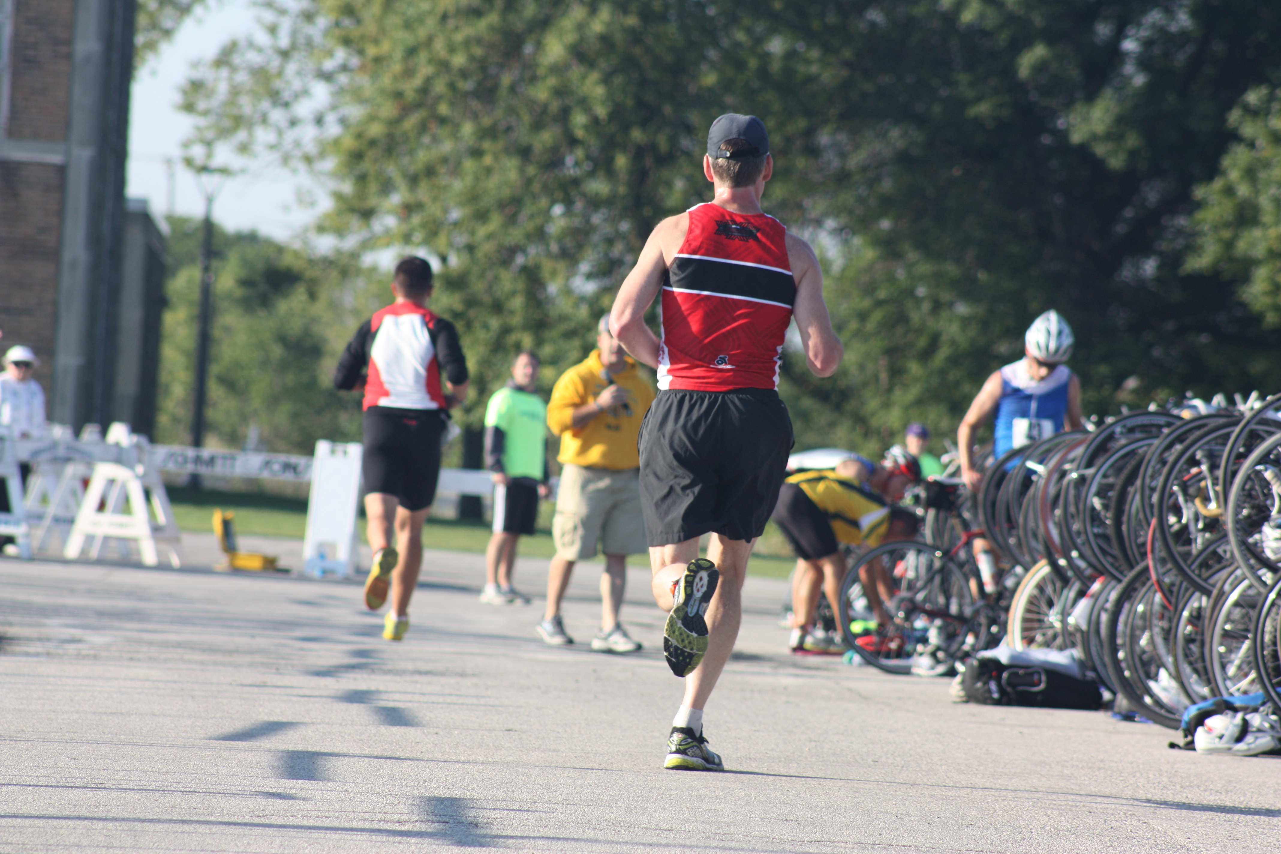 The Shoreline Duathlon is a run-bike-run combination race held by Concordia University in Mequon, Wisconsin. Proceeds from the 2013 race benefit the CUW Cross Country and Track & Field teams, as well as Racers Against Childhood Cancer.